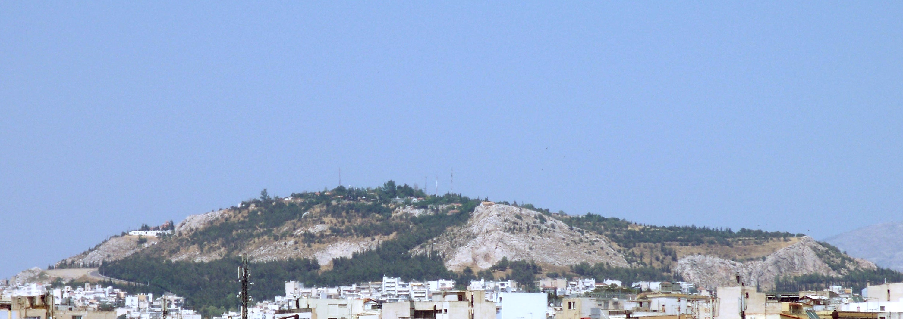 The Tourkovounia hills in Athens, Greece, as seen from the side of Filopappou hill.